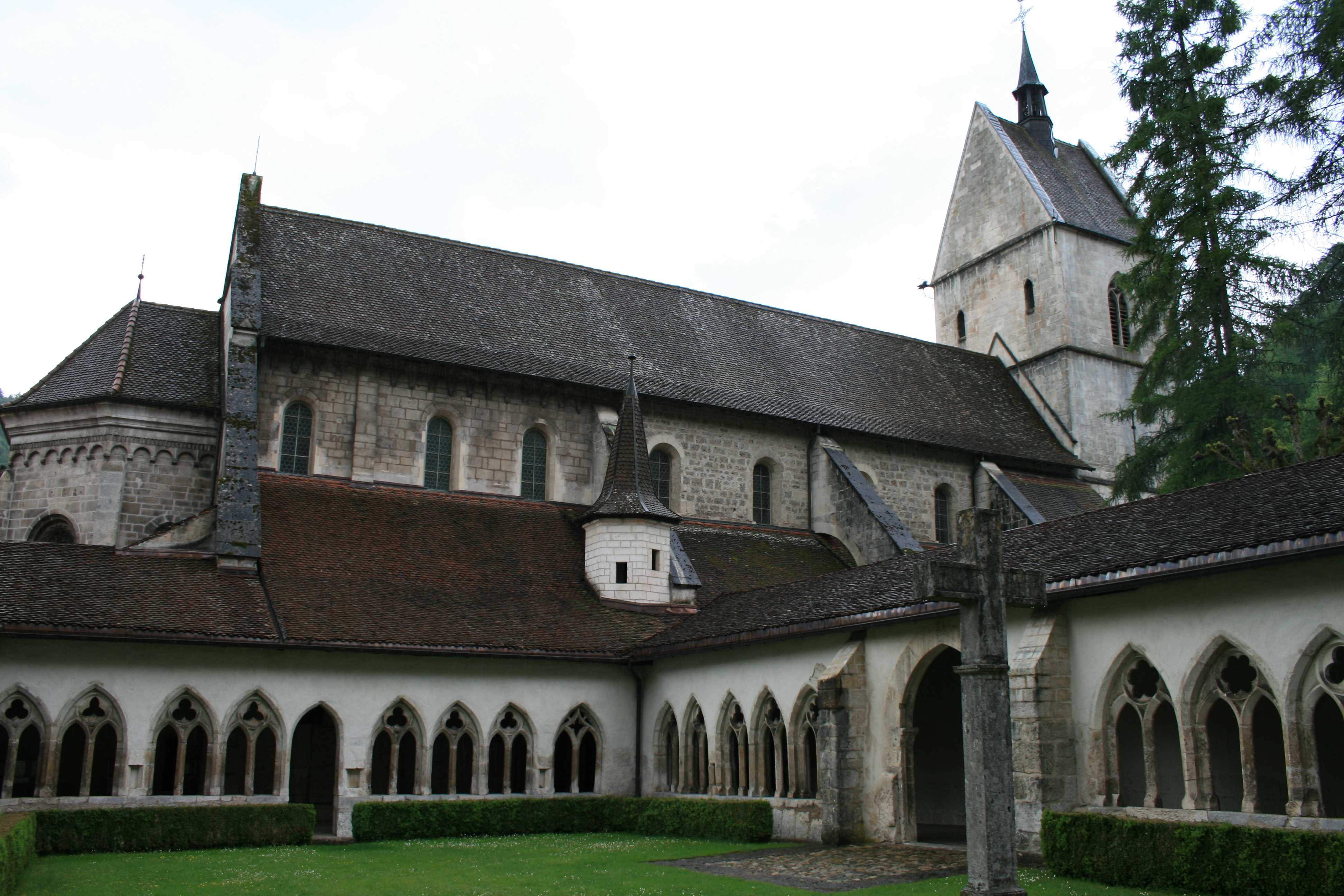 Abbey of Saint-Ursanne, Switzerland